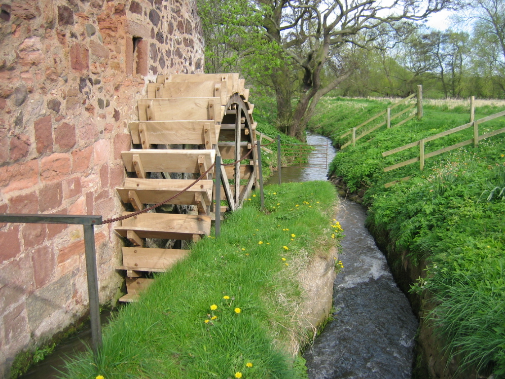 Preston Mill, East Linton, East Lothian, Scotland